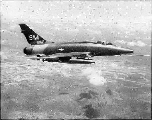 F-100D of the 308th Tactical Fighter Squadron, Tuy Hoa Air Base, South Vietnam.